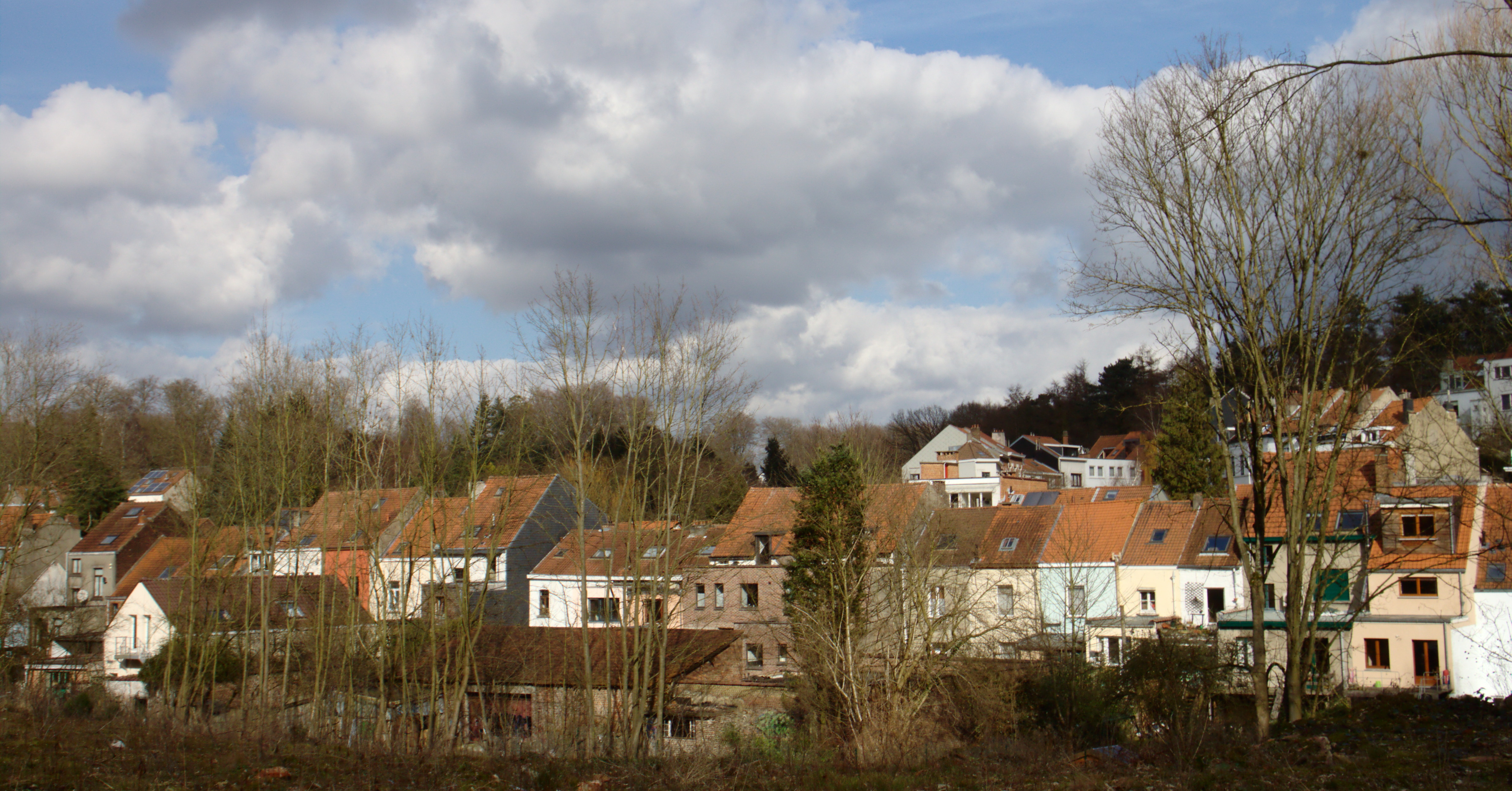 Southeastern edge of Brussels near Zoniënwoud park, Brussels, Belgium